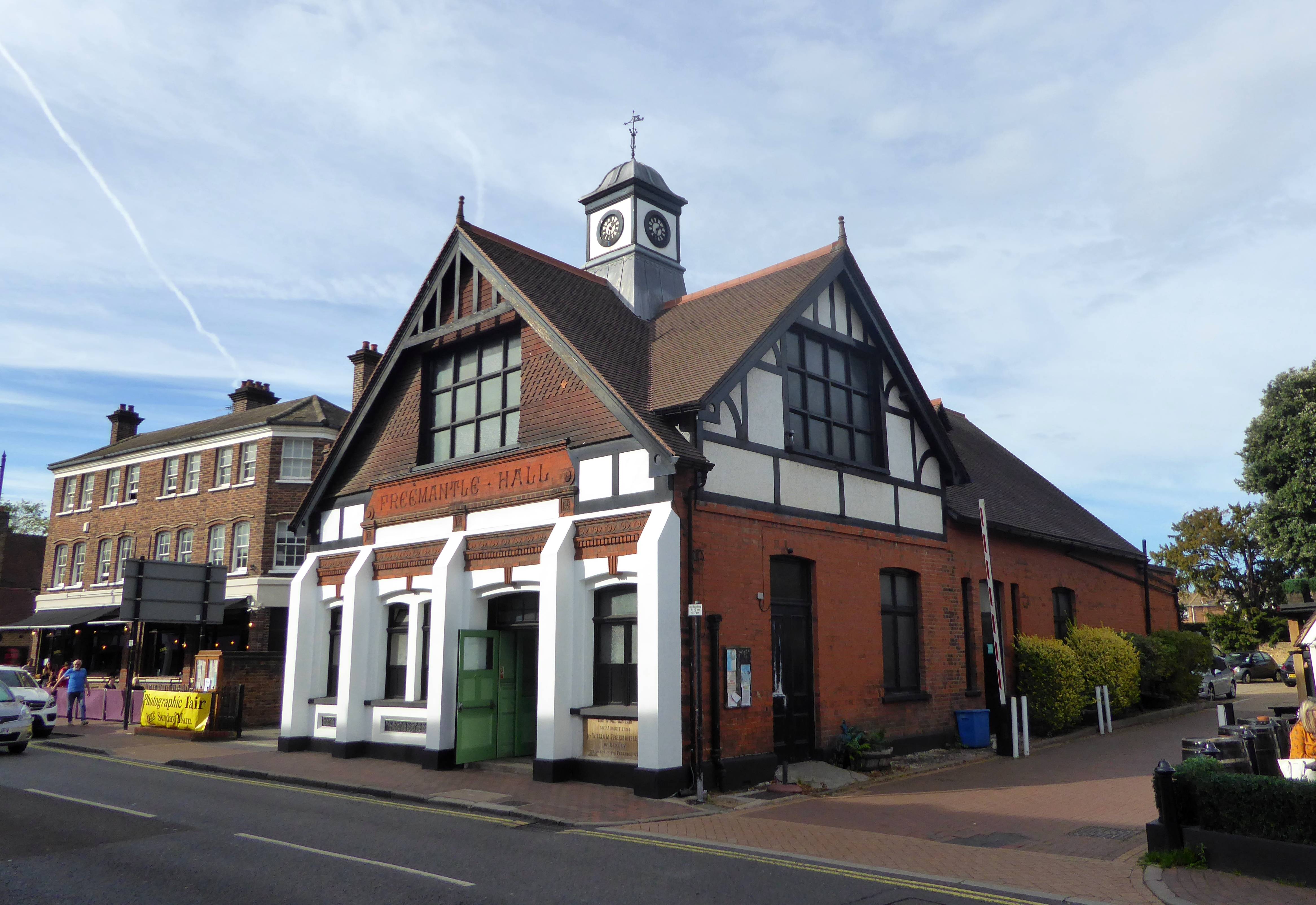 The late nineteenth-century Freemantle Hall in Bexley Village, London Borough of Bexley.